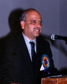 Shridhar Ramachandra Gadre XII ICCRE at Pune, India in 2008